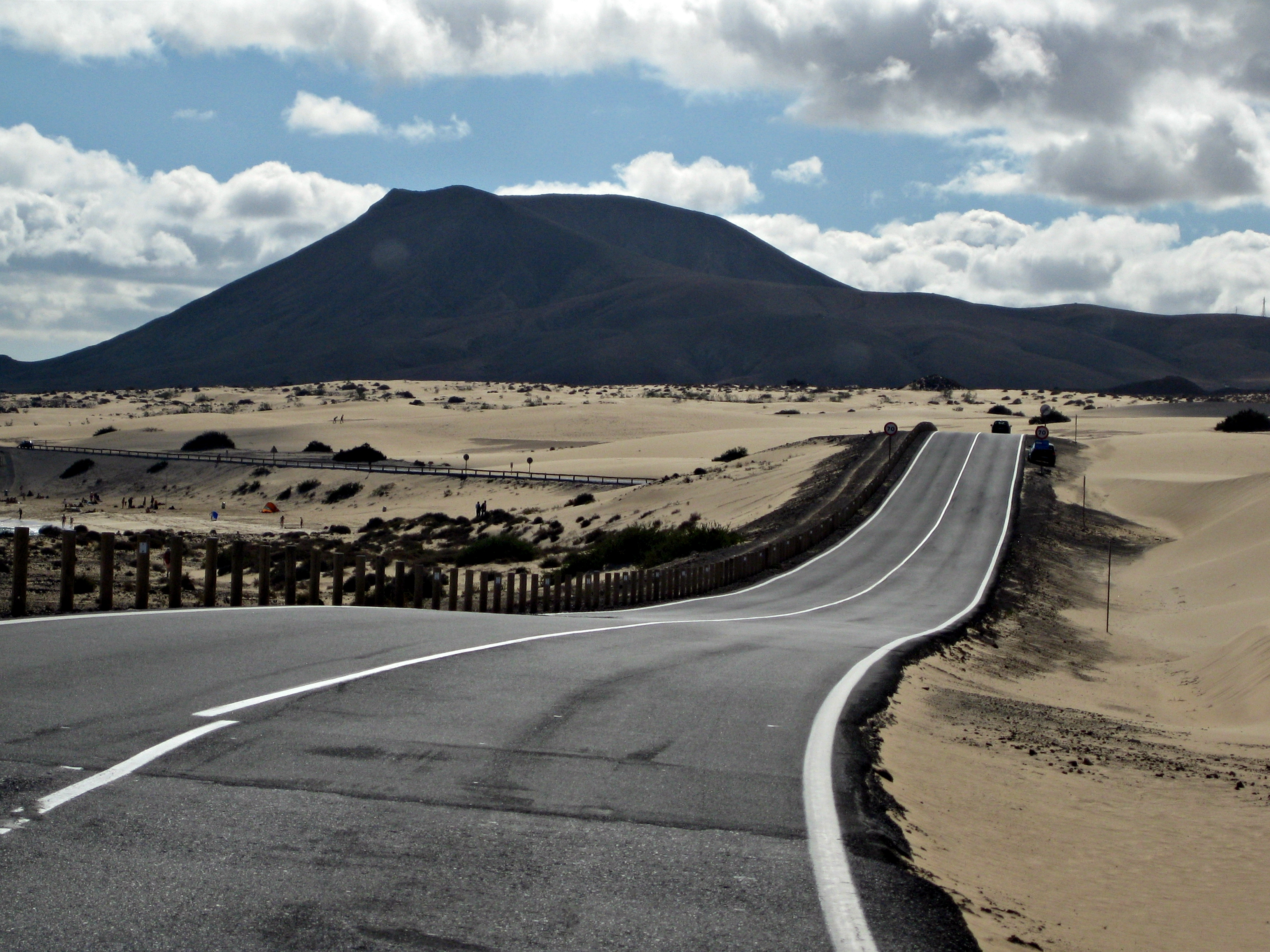 Spain, Canarys, Fuerteventura: asphalt on sand.